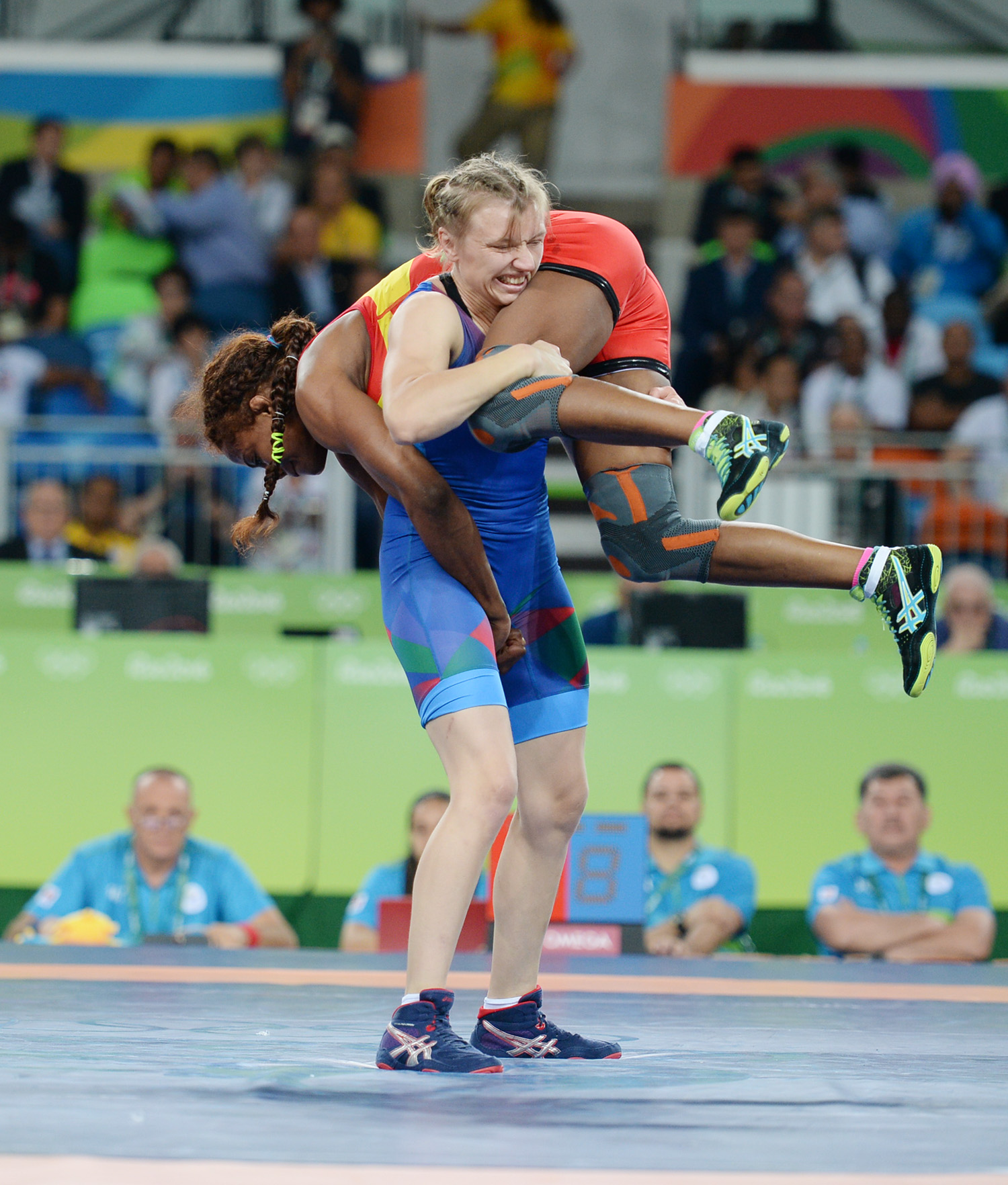 Wrestling at the 2016 Summer Olympics, Ratkevich vs Renteria